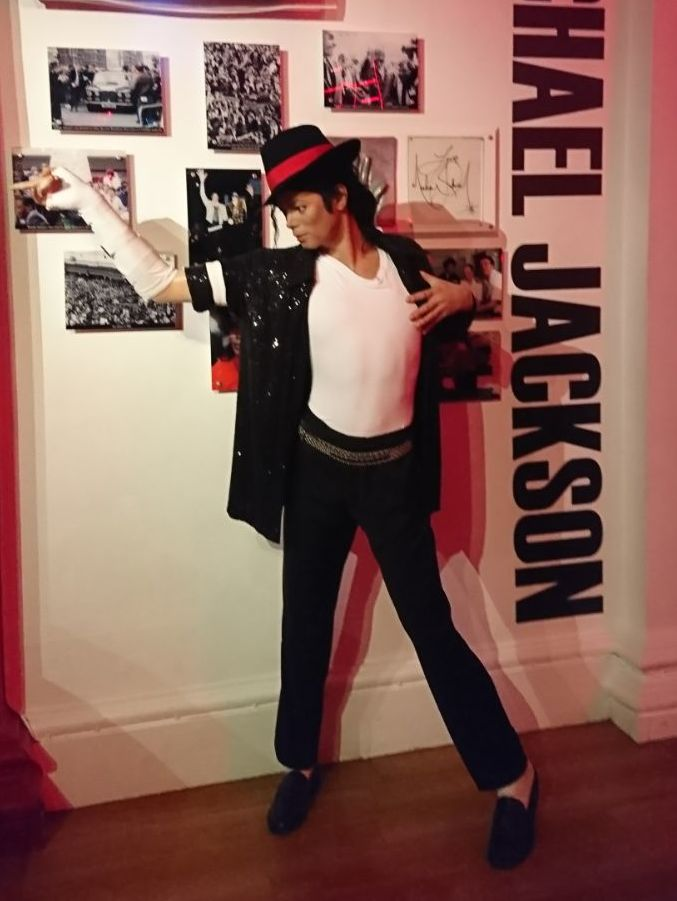 MJ has wax figure in almost every wax museum in the world